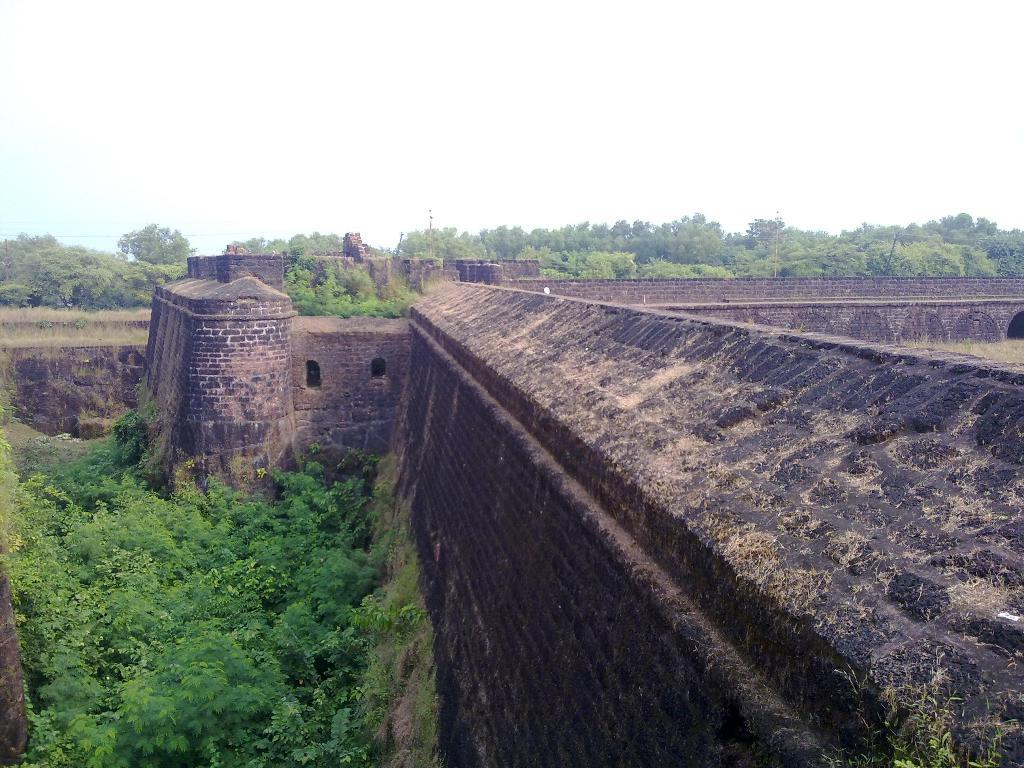 Wall of Fort Aguada, Goa